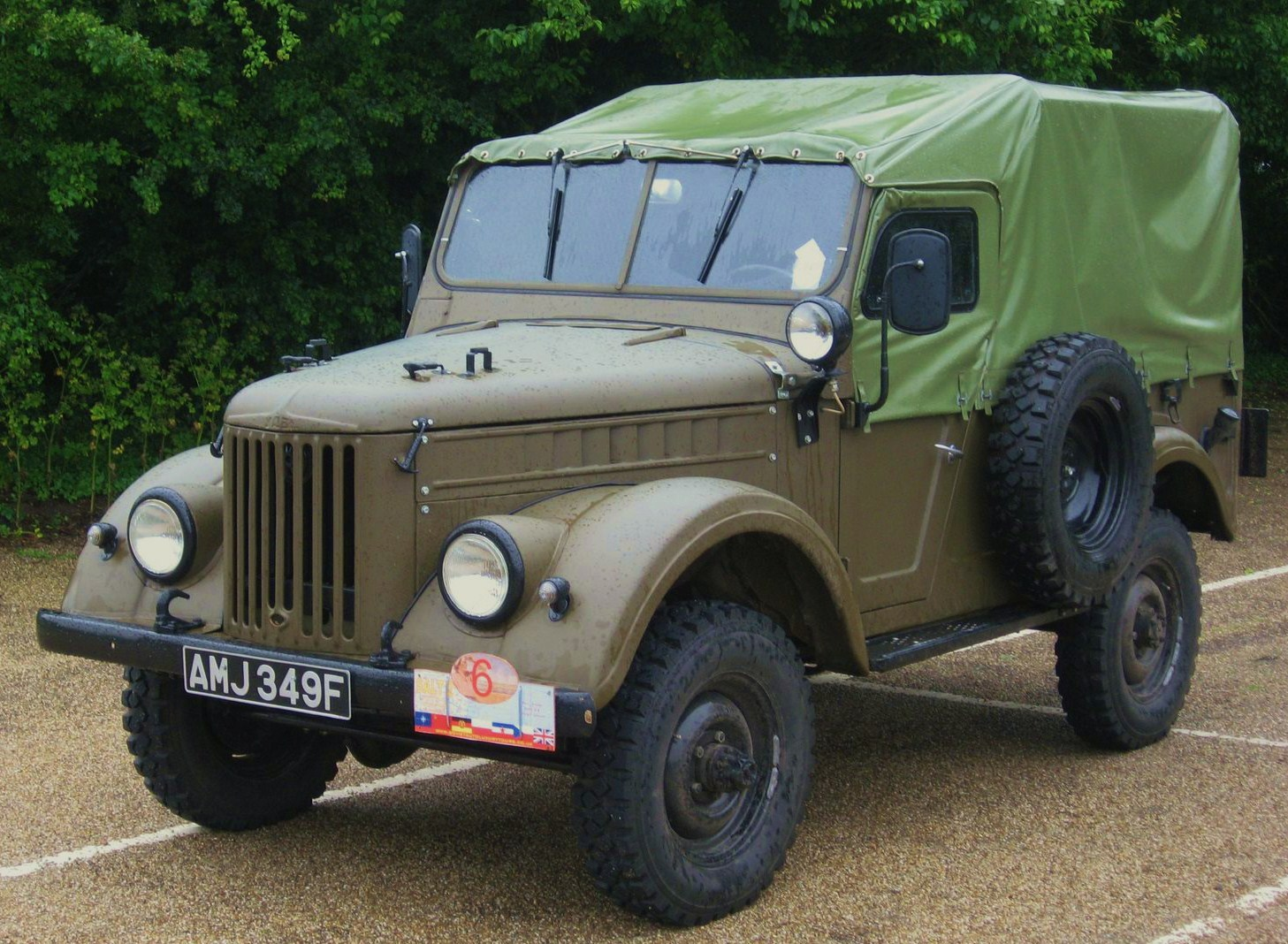 USSR-built, ex-DDR NVA issue, Polish restored 1968 GAZ 69M (in fact, UAZ-69).